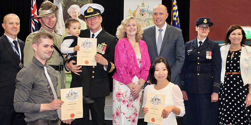 Peter Dutton, Minister for Immigration and Border Protection, at an Australian Citizenship Ceremony at Calamvale Community Sports Centre on Australian Citzenship Day 2017.